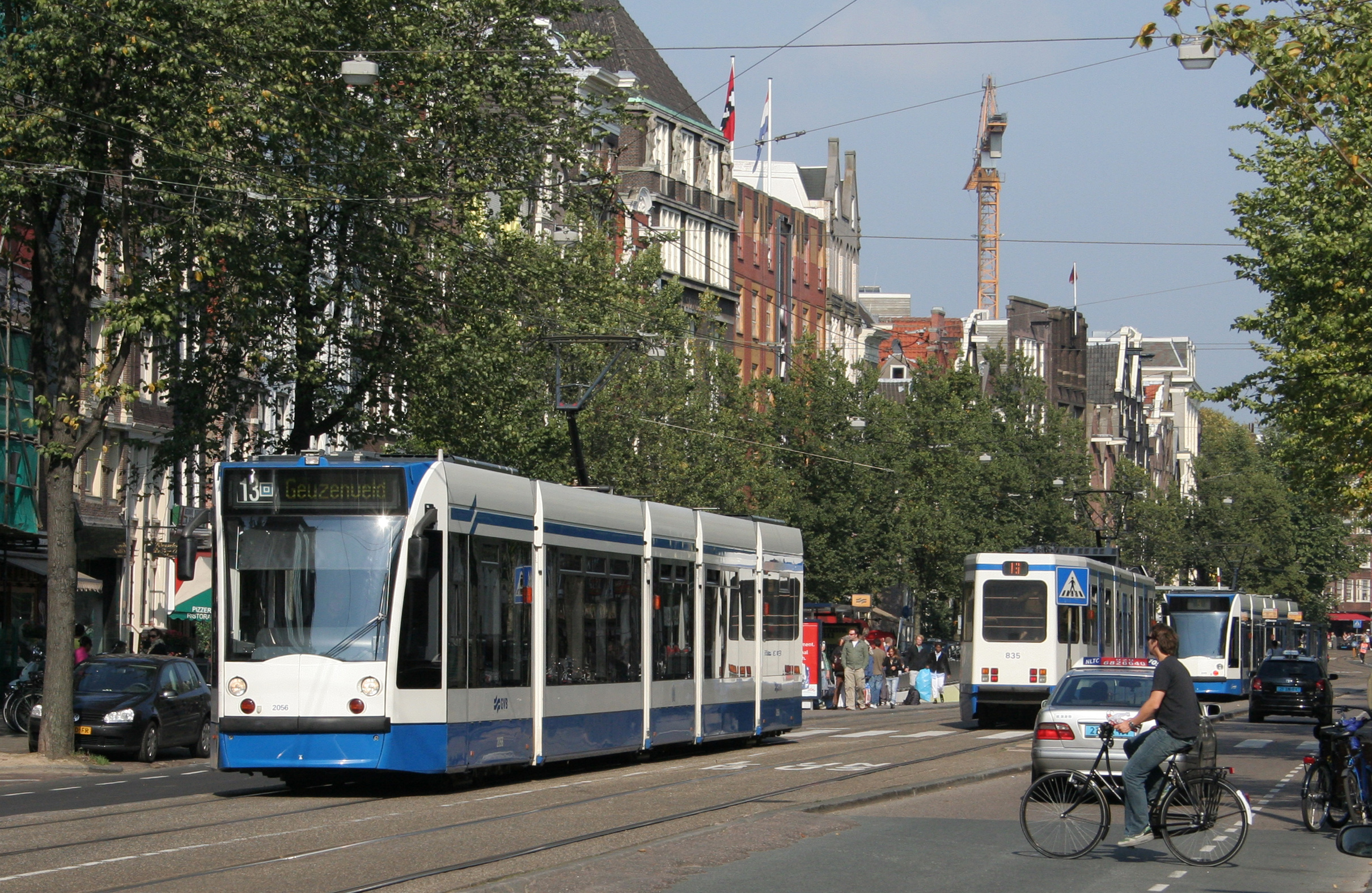 Combino tram in Amsterdam